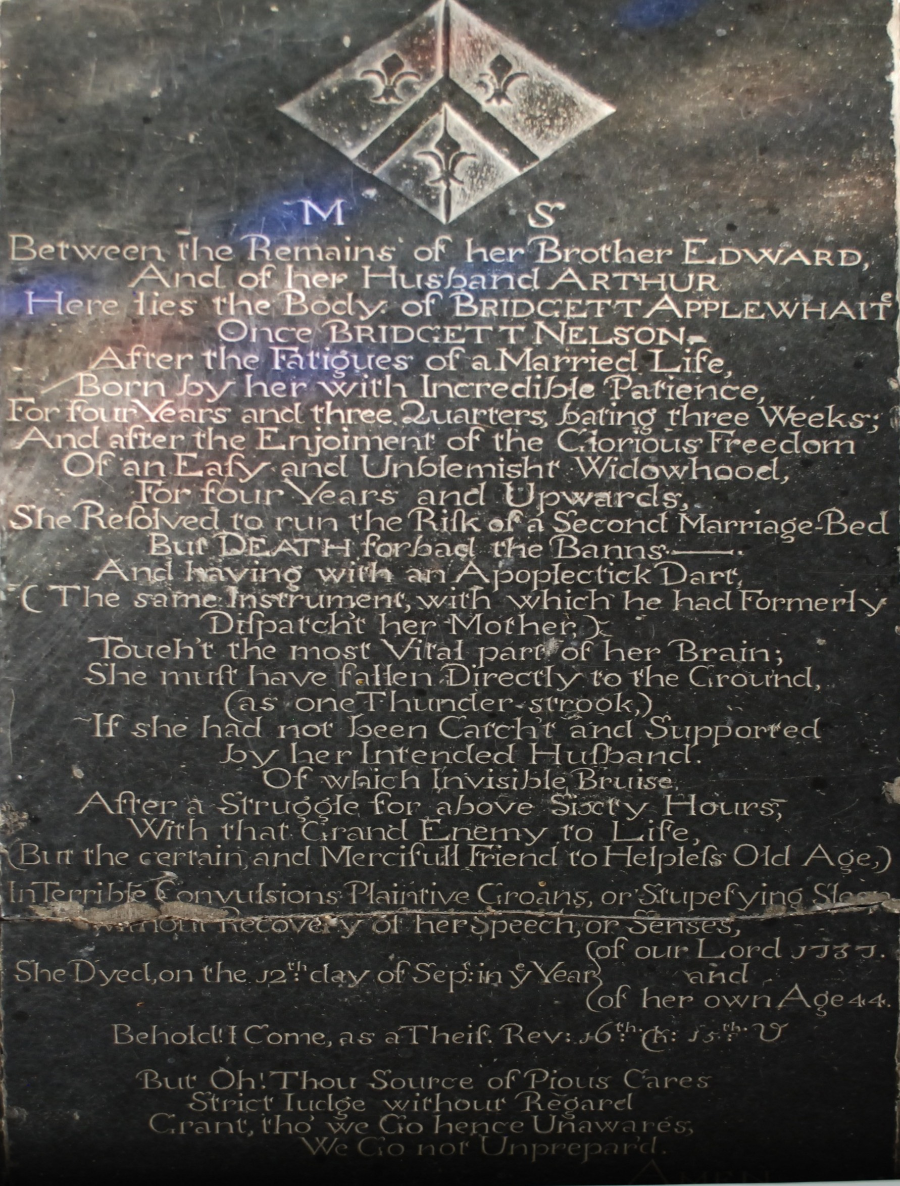 Bramfield church: gravestone of Bridgett Applewhait.